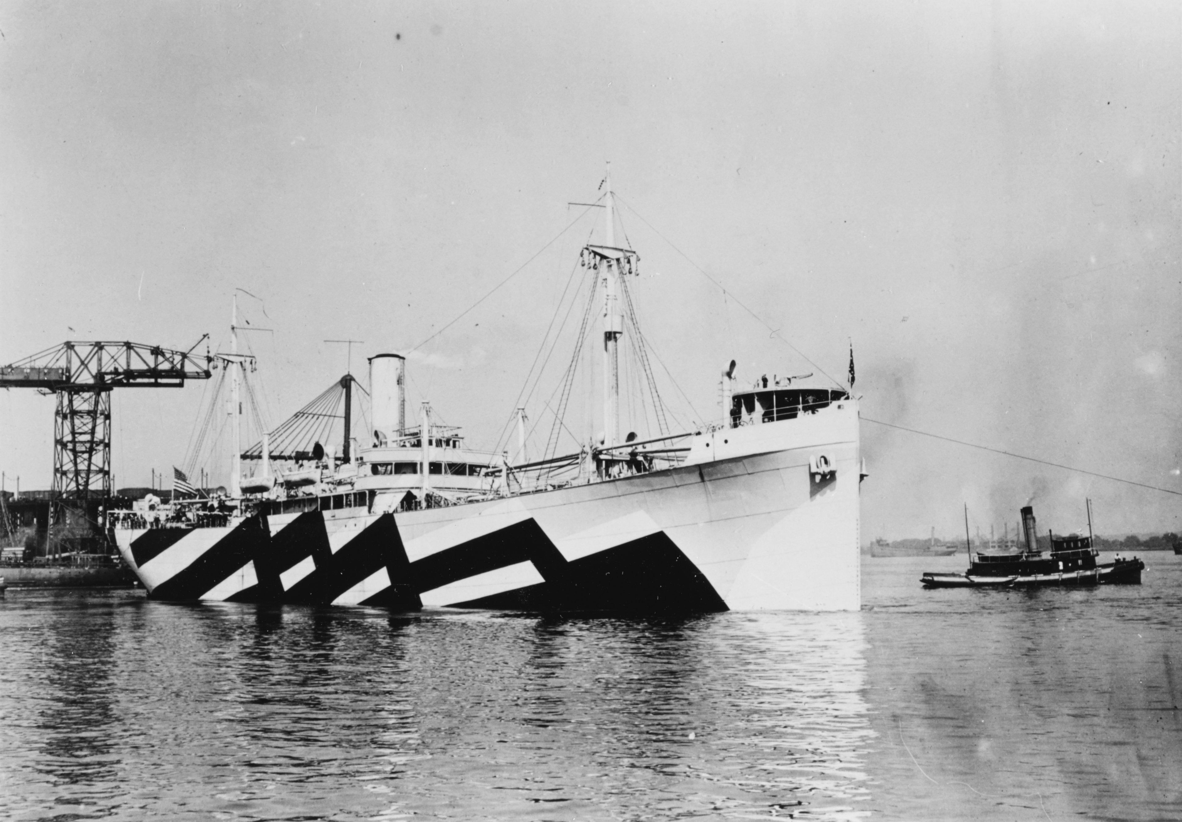 USS Santa Olivia (ID-3125) just after completion, ca. July 1918. The location is probably the William Cramp & Sons shipyard where the vessel was built. The ship is painted in a wartime dazzle camouflage scheme.